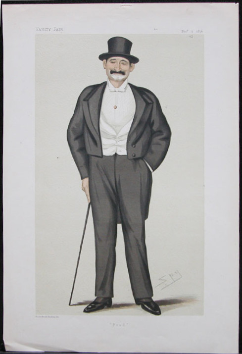 Men of the Day No.143: Caricature of Capt FG Burnaby. Caption reads: "Fred"